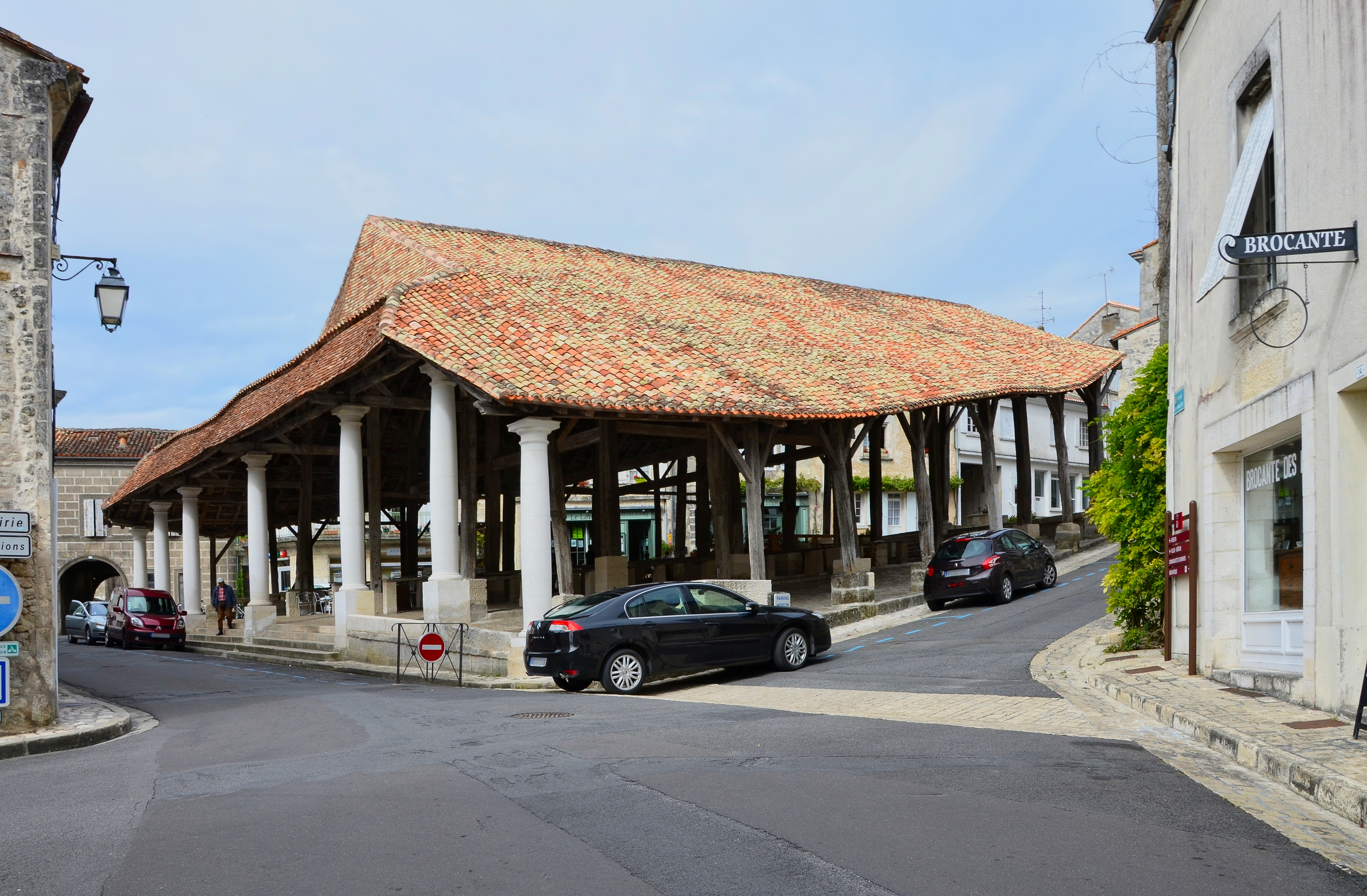 The market hall (17th century), recently refurbished, Villebois-Lavalette, Charente, France.